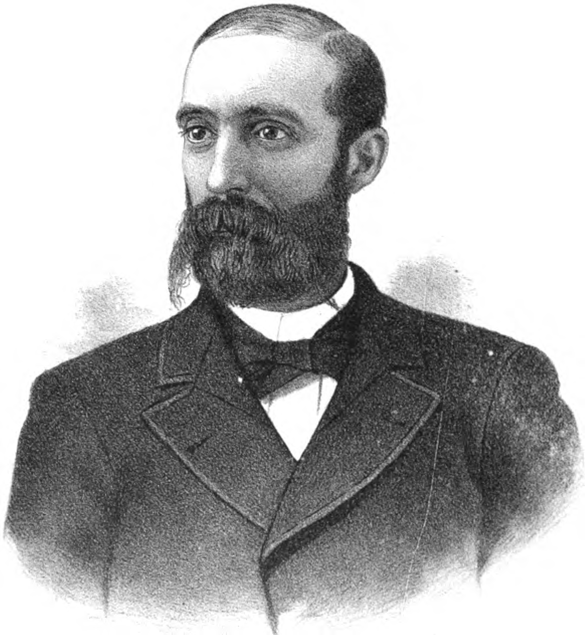 George P. Ikirt from 1891 book.